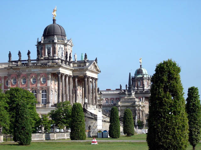 University of Potsdam at Neues Palais